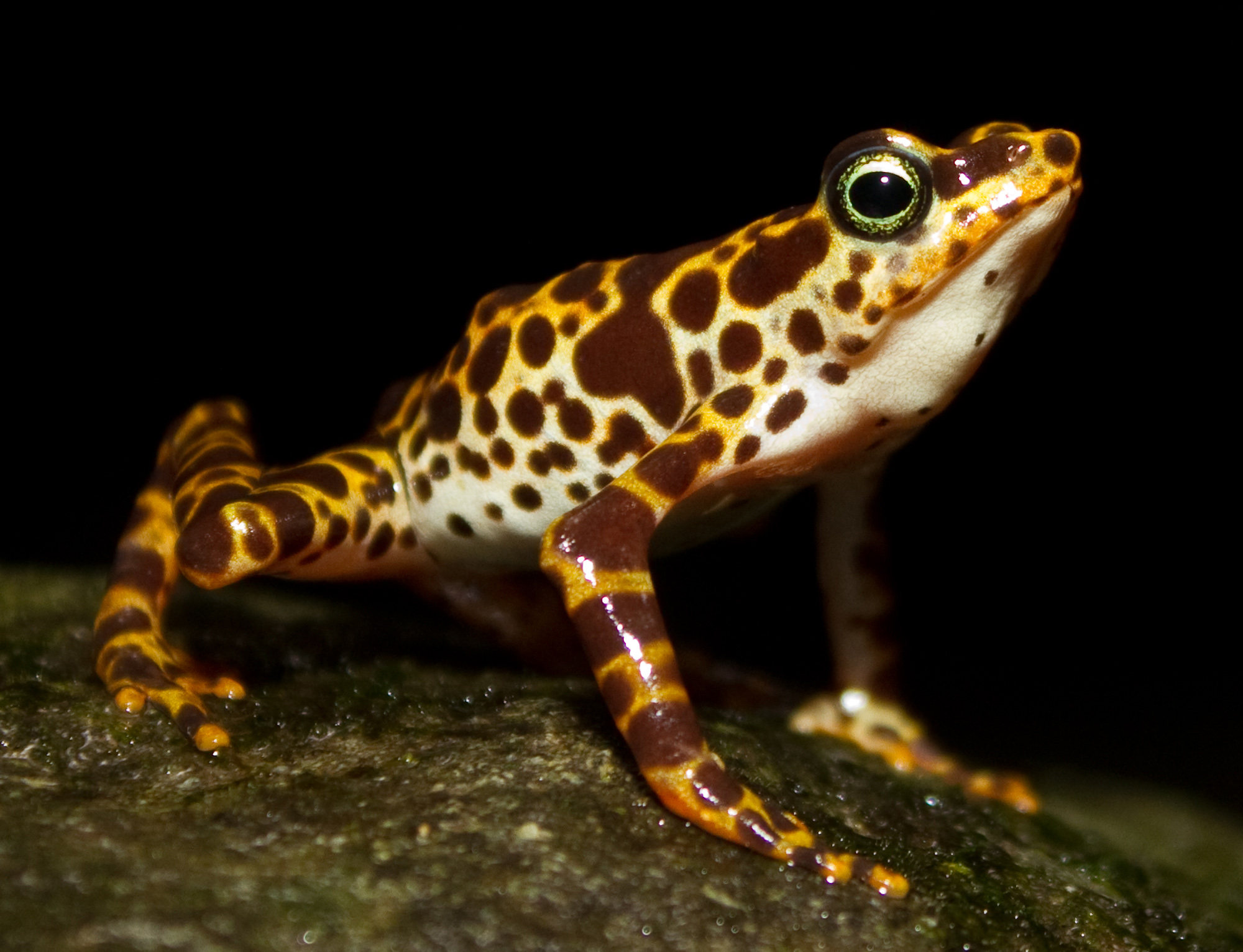 Atelopus certus calling male. Details of the expedition can be found here [1].